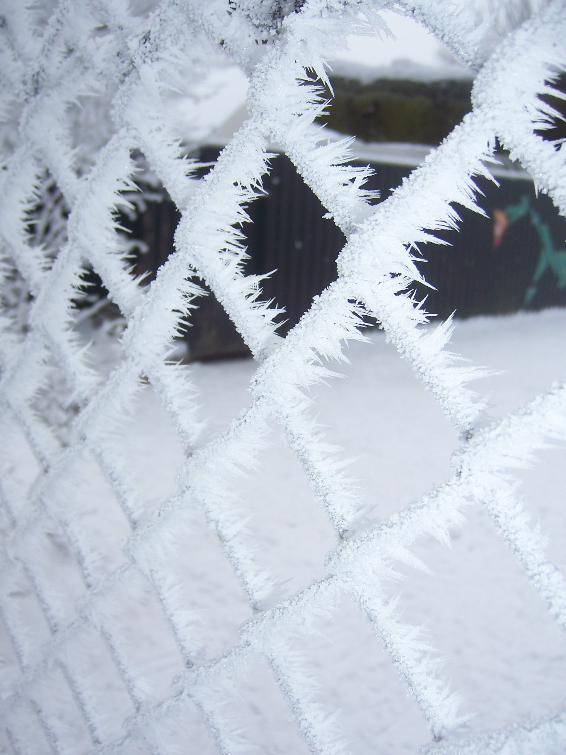 Frost on a chainlink fence in Denmark